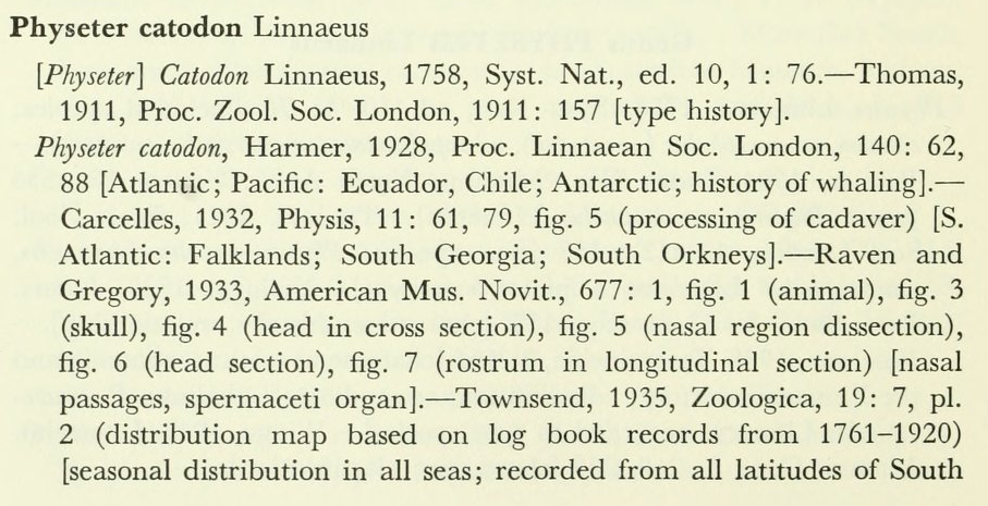 Page 116 from "Catalog of living whales"